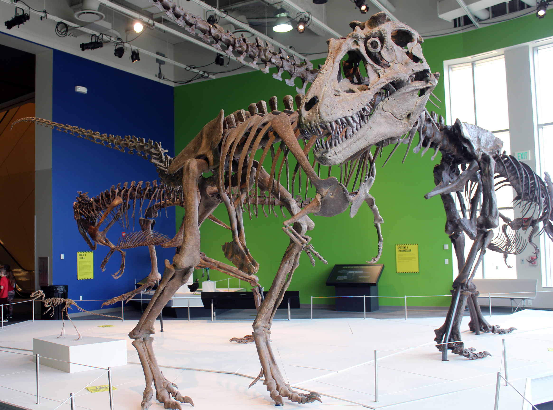 Lythronax cast mount on display in Des Moines Science Center during Tyrannosaurs: Meet the Family exhibit.